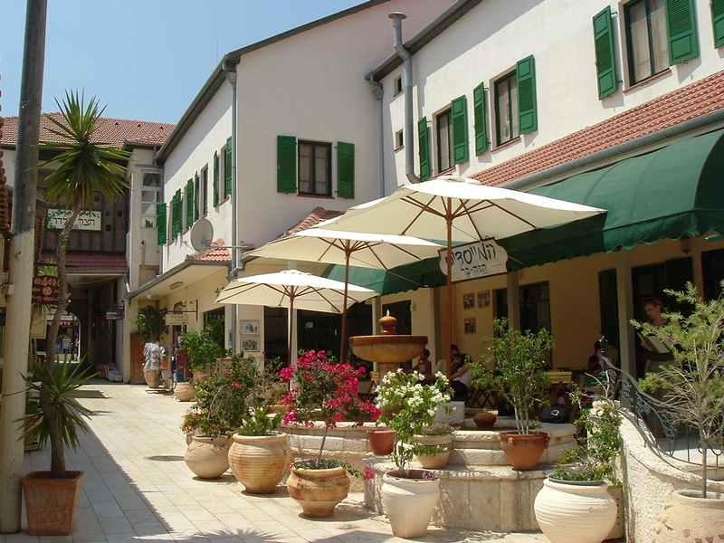 Wilder's Yard in Zichron Yaakov, Israel